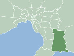 Map of Melbourne's Local Government Areas, highlighting City of Casey